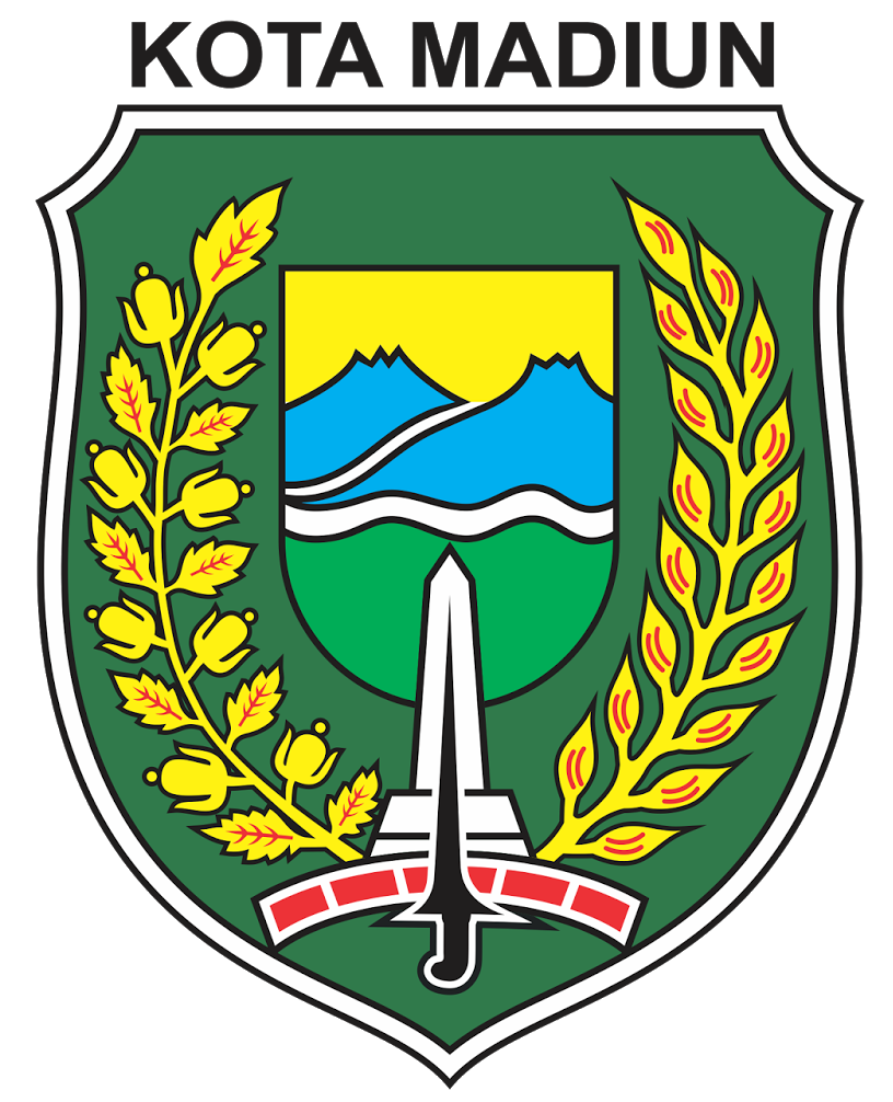 Lambang (Coat of Arms) of Kota (City) of Madiun, provinsi Jawa Timur (East Java Province), Indonesia